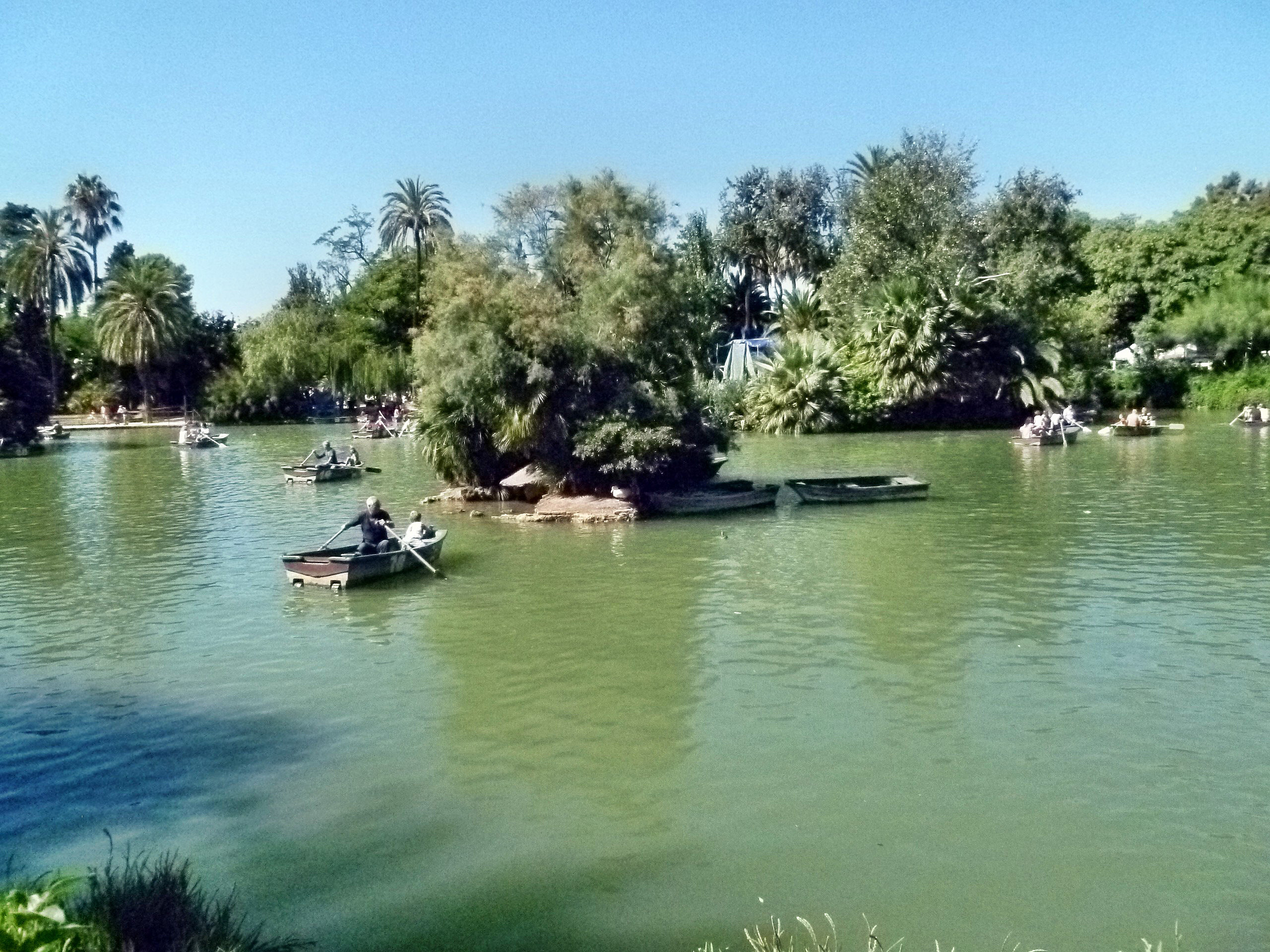 The lake in the Parc de la Ciutadella, Barcelona, Catalonia, Spain